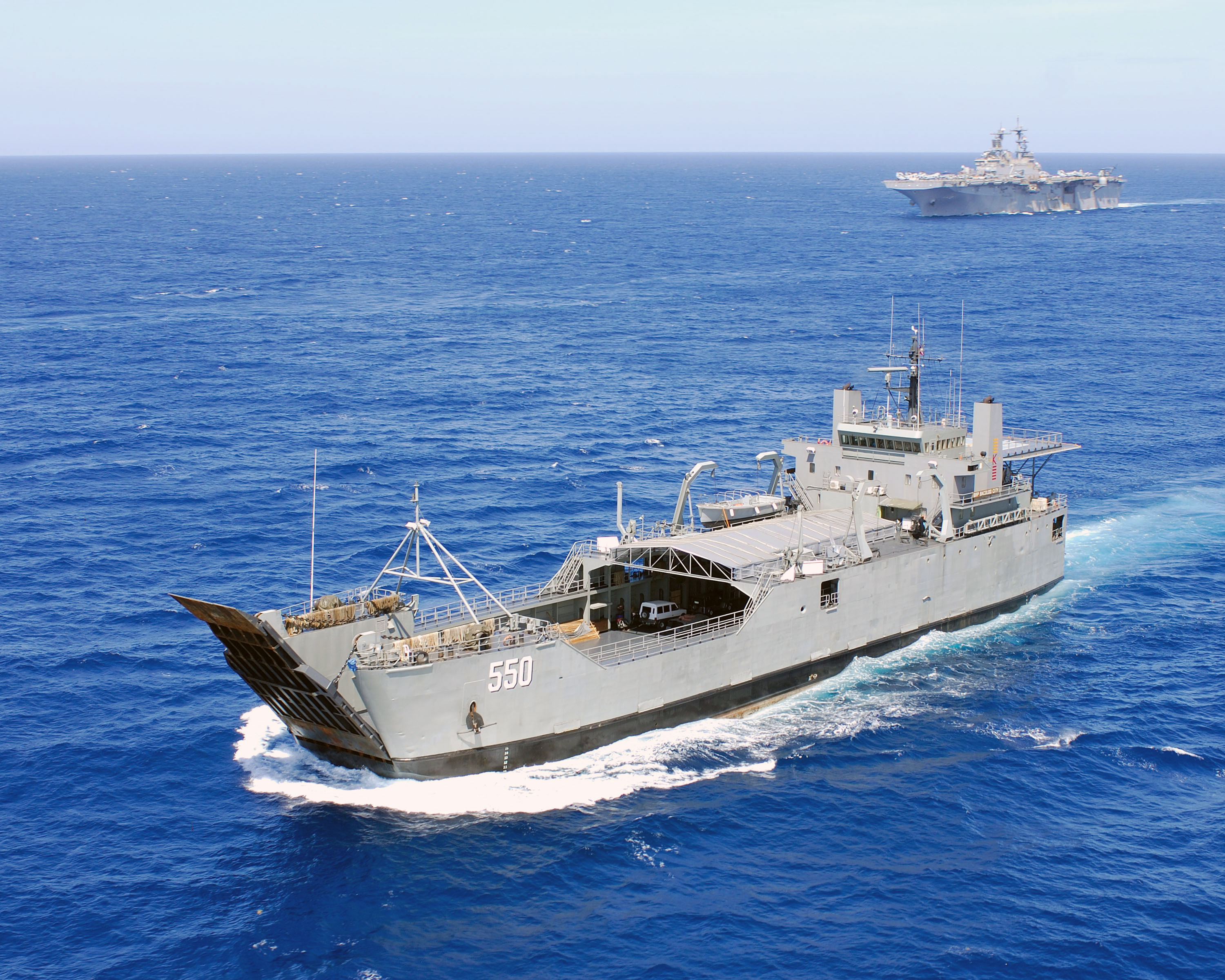 SOUTH CHINA SEA (Feb. 24, 2008) The Republic of Philippines amphibious ship BRP Bacolod City (LC 550) steams ahead of the amphibious assault ship USS Essex (LHD 2) during navy bilateral training as part of Balikatan 2008. During the Balikatan 2008 humanitarian assistance and training activities, military service members from the United States and the government of the Republic of the Philippines are working together to improve maritime security and ensure humanitarian assistance and disaster relief efforts are efficient and effective.